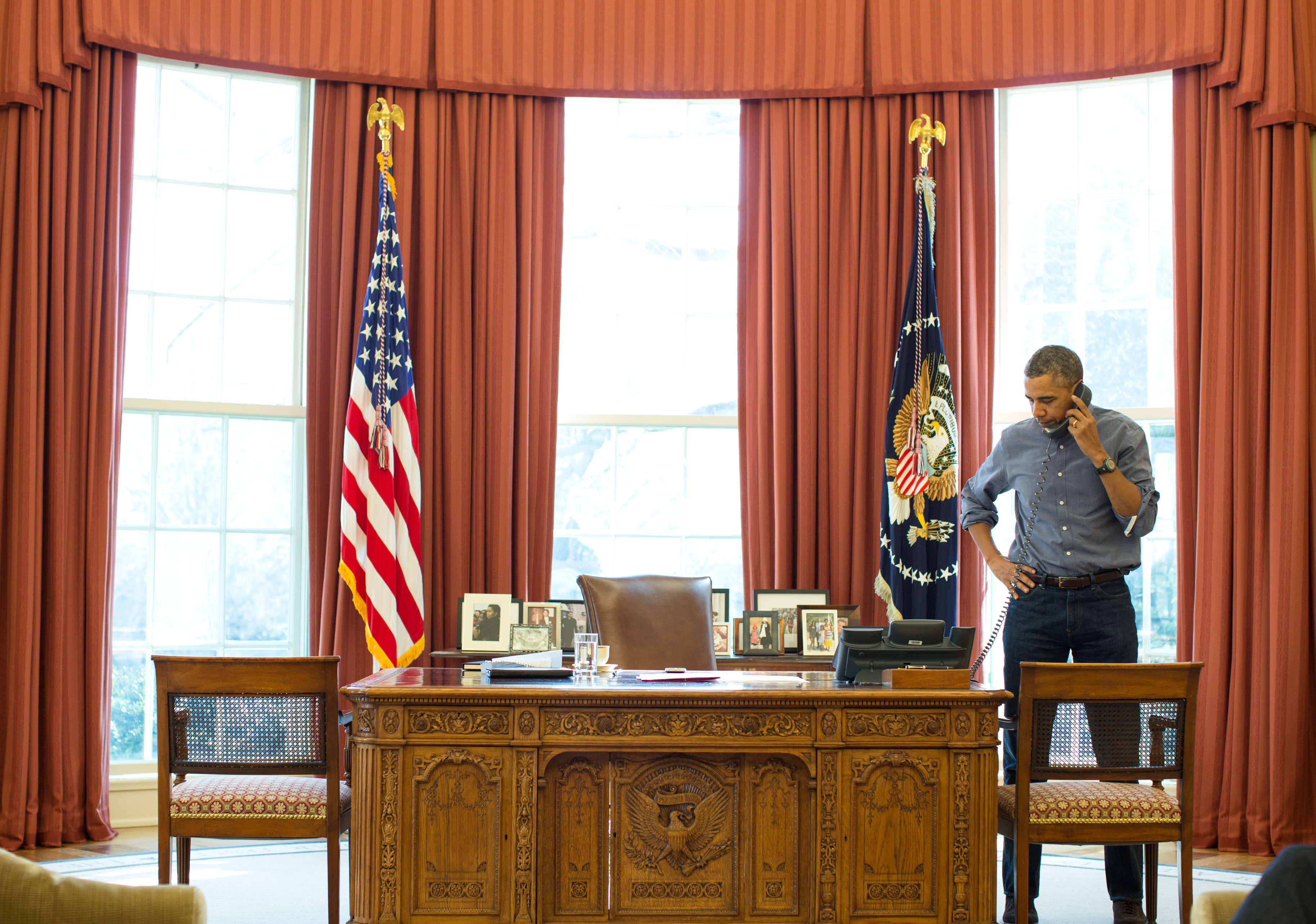 President Barack Obama talks on the phone in the Oval Office with Russian President Vladimir Putin about the situation in Ukraine. (Official White House Photo by Pete Souza)